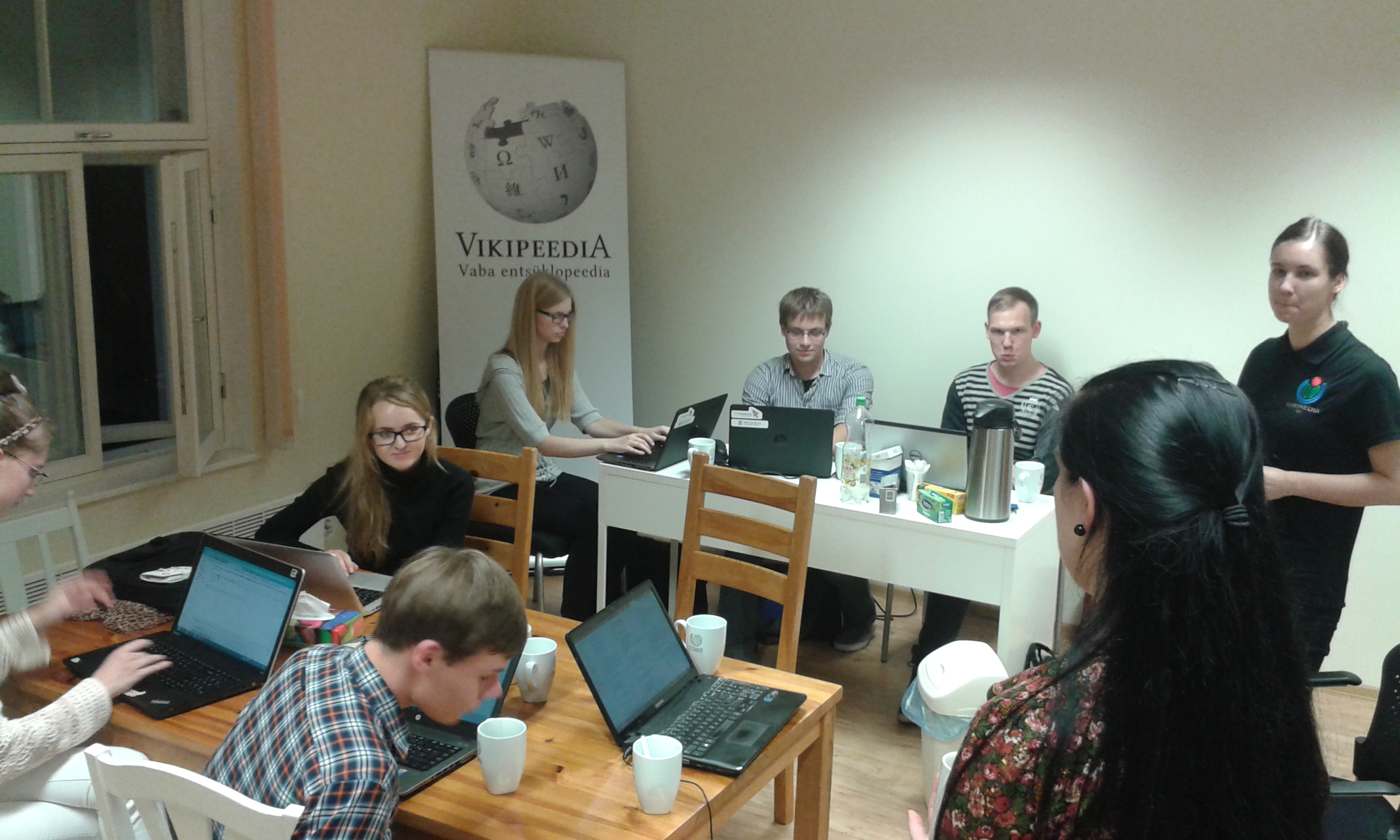 Edit-a-thon organised in the office of Wikimedia Eesti on the 11th of September 2014.